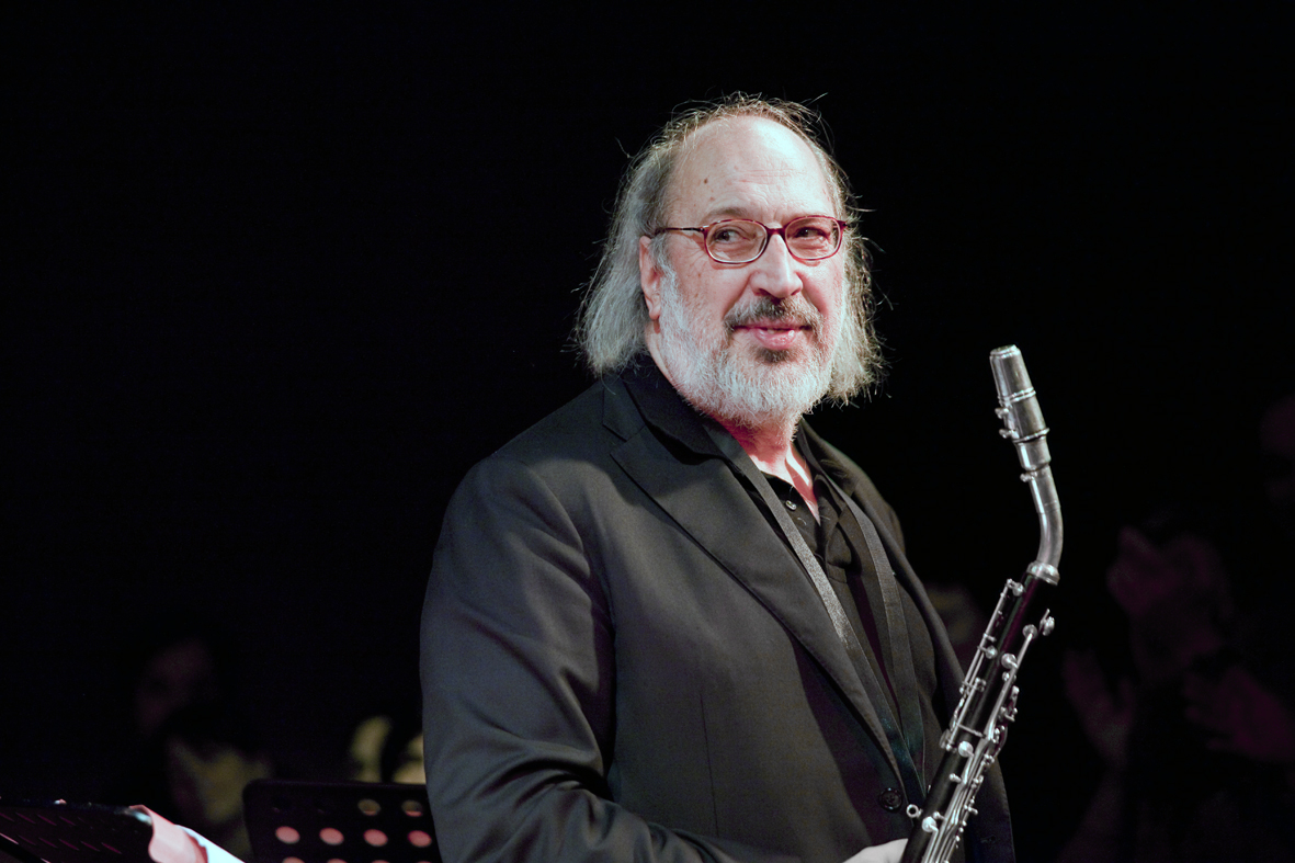 Italian jazz-musician Gianluigi Trovesi at Altes Pfandhaus, Cologne